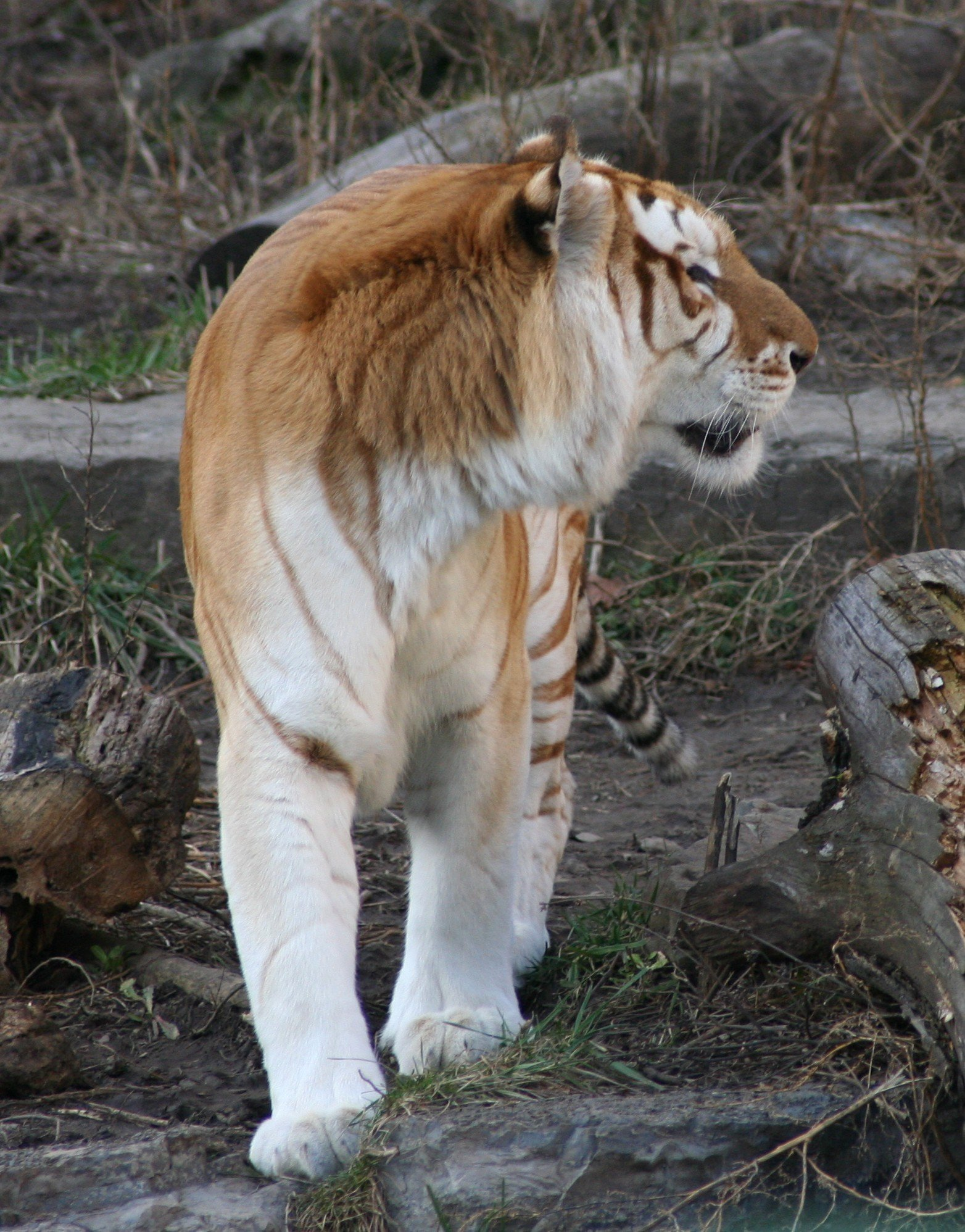 Golden tiger at the Buffalo Zoo. From wikipedia article: "The golden tabby tiger or golden tiger is an extremely rare colour variation caused by a recessive gene and now found only in captive tigers. ... There are currently believed to be less than 30 of these rare tigers in the world, but many more carriers of the gene."